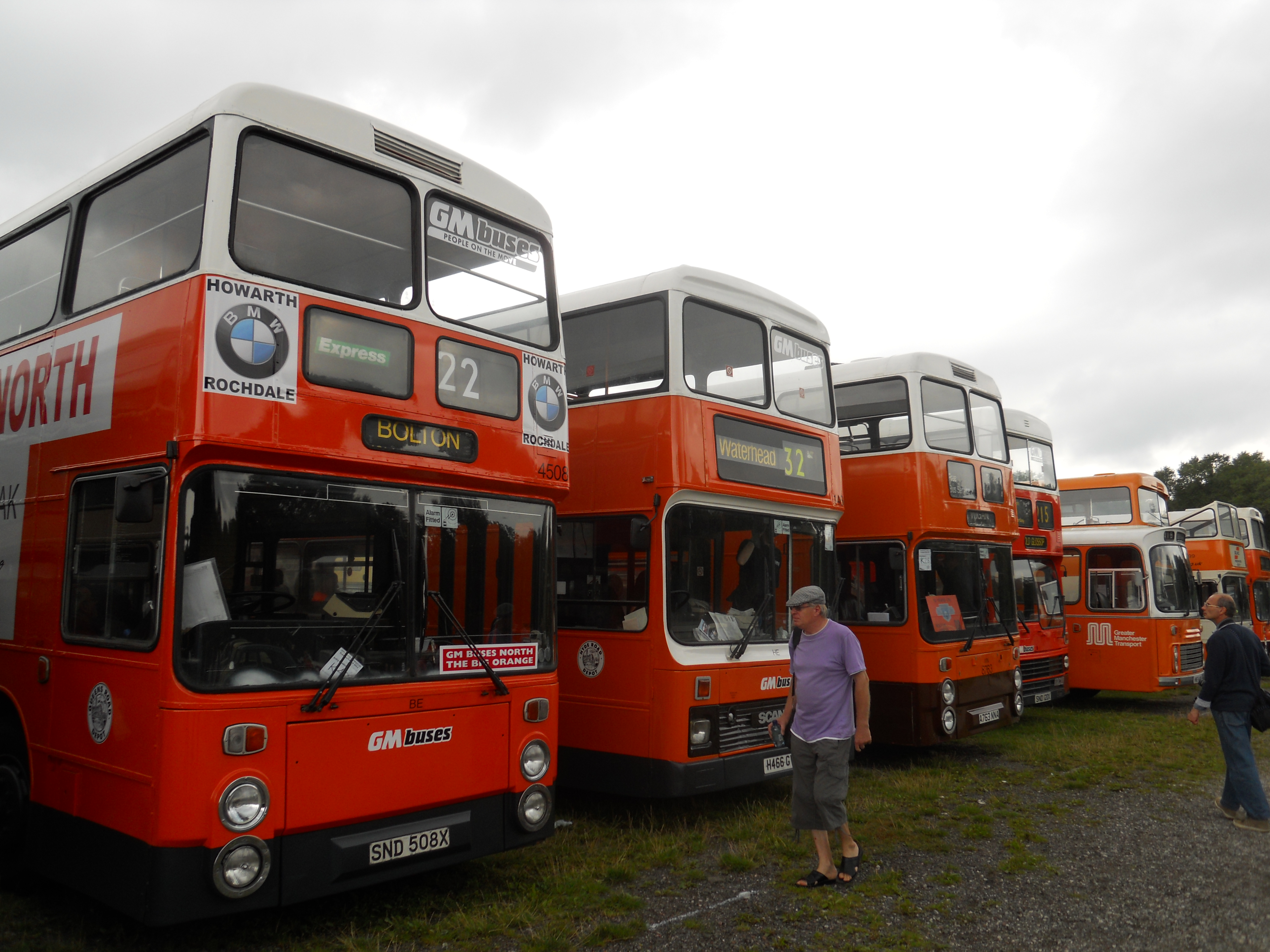 Taken on Sunday 4th September during the Trans Lancs Rally event at Heaton Park